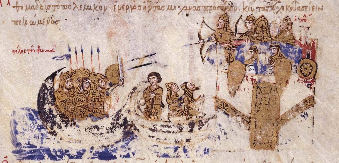 The fleet of Thomas the Slav is beaten back from the sea walls of Constantinople